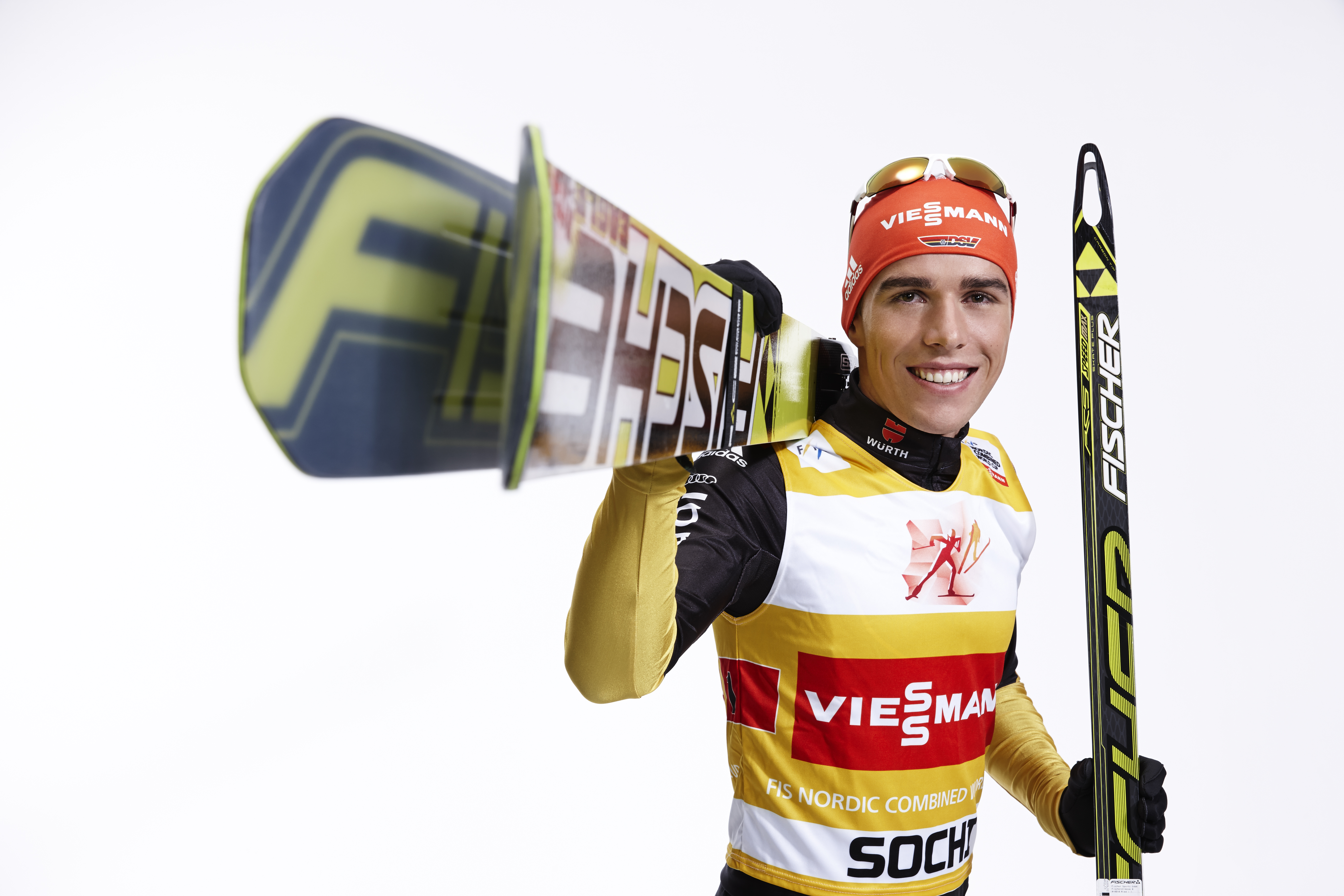 Johannes Rydzek with ski